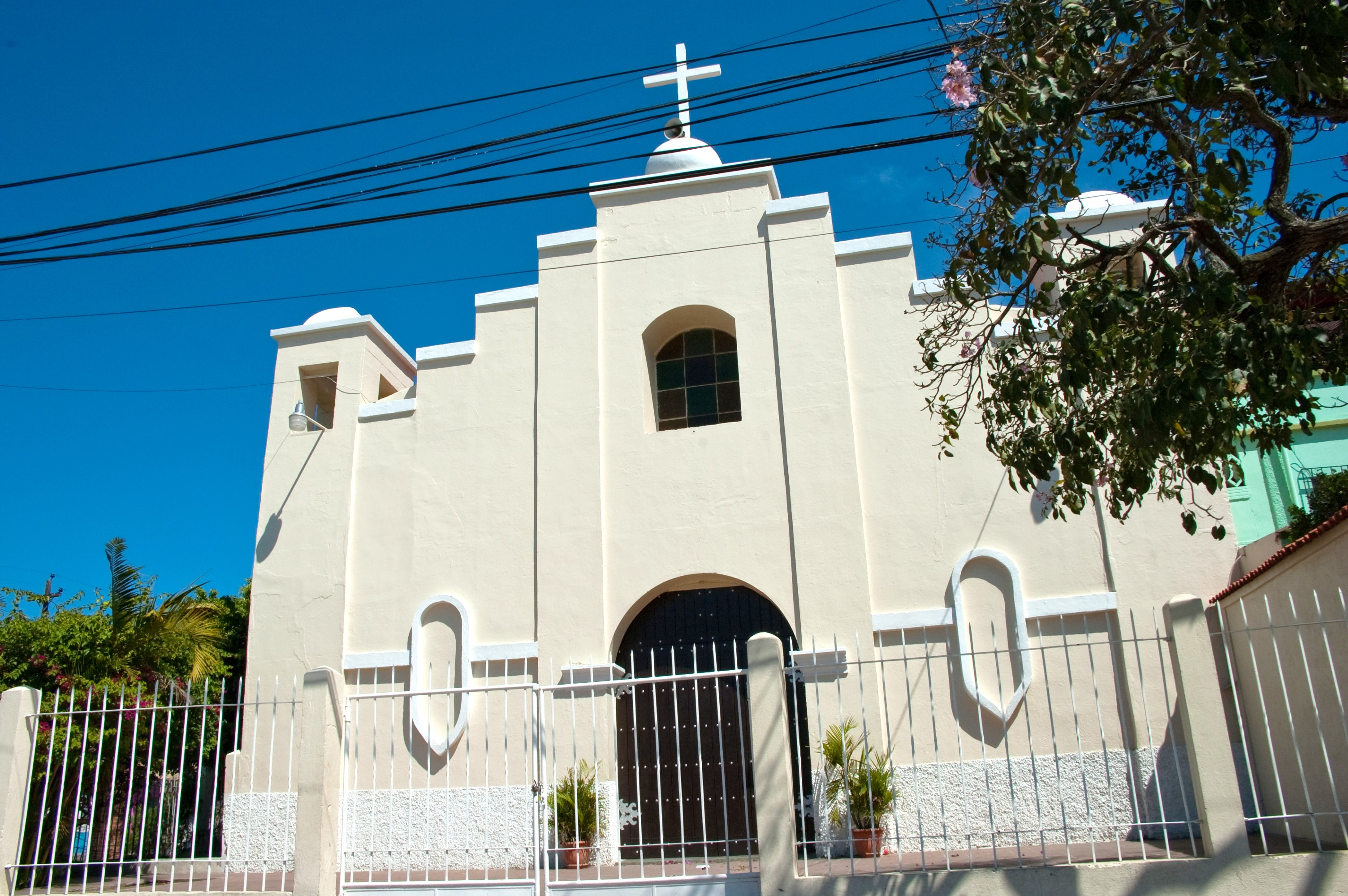 The newly renovated Catholic Church across from the Ismael Cerna Park in Ipala.